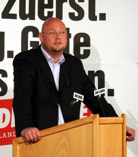 Enrico Stange